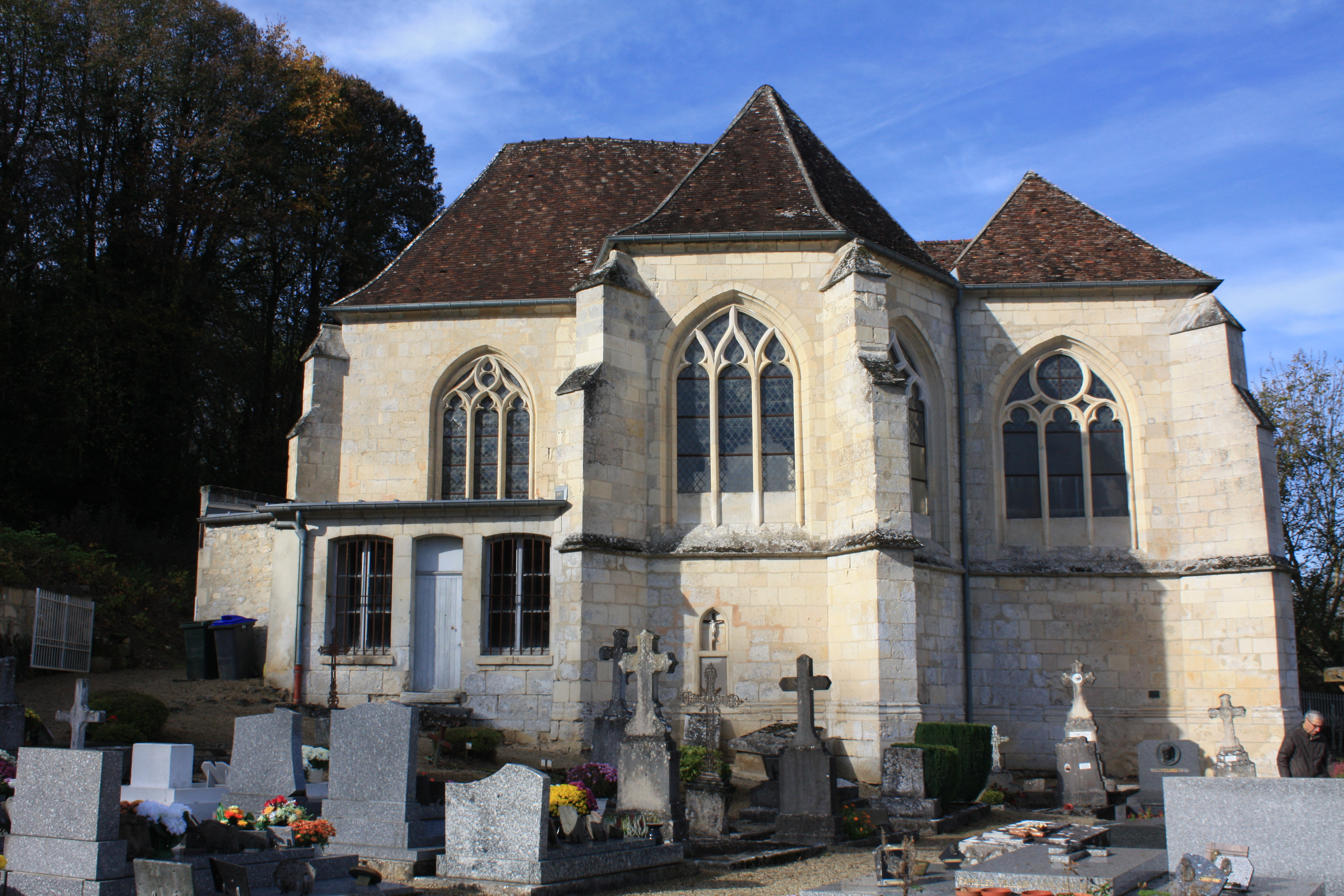 Église Saint-Jean-Baptiste de Muret-et-Crouttes 3